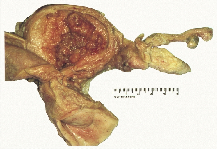 Obtained from the Pathology Information Educational Resource (PEIR) website ( PEIR Image# 402531. This image is labeled as a non-copyrighted image from a publication of the Armed Forces Institute of Pathology, a government agency.